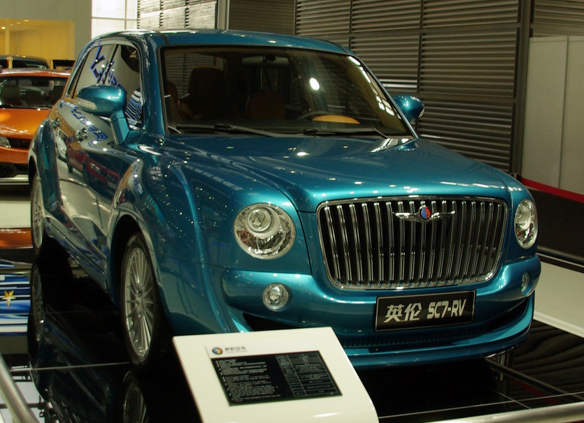 (Geely) Englon SC7-RV at the 2011 Shenzhen-Hong Kong-Macau International Auto Show. This car (not to be confused with the wholly unrelated SC7 saloon) is a family saloon version of the updated Englon TXN, itself based on the LTI TX4